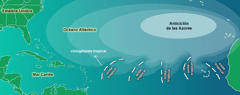 Tropical waves formation.